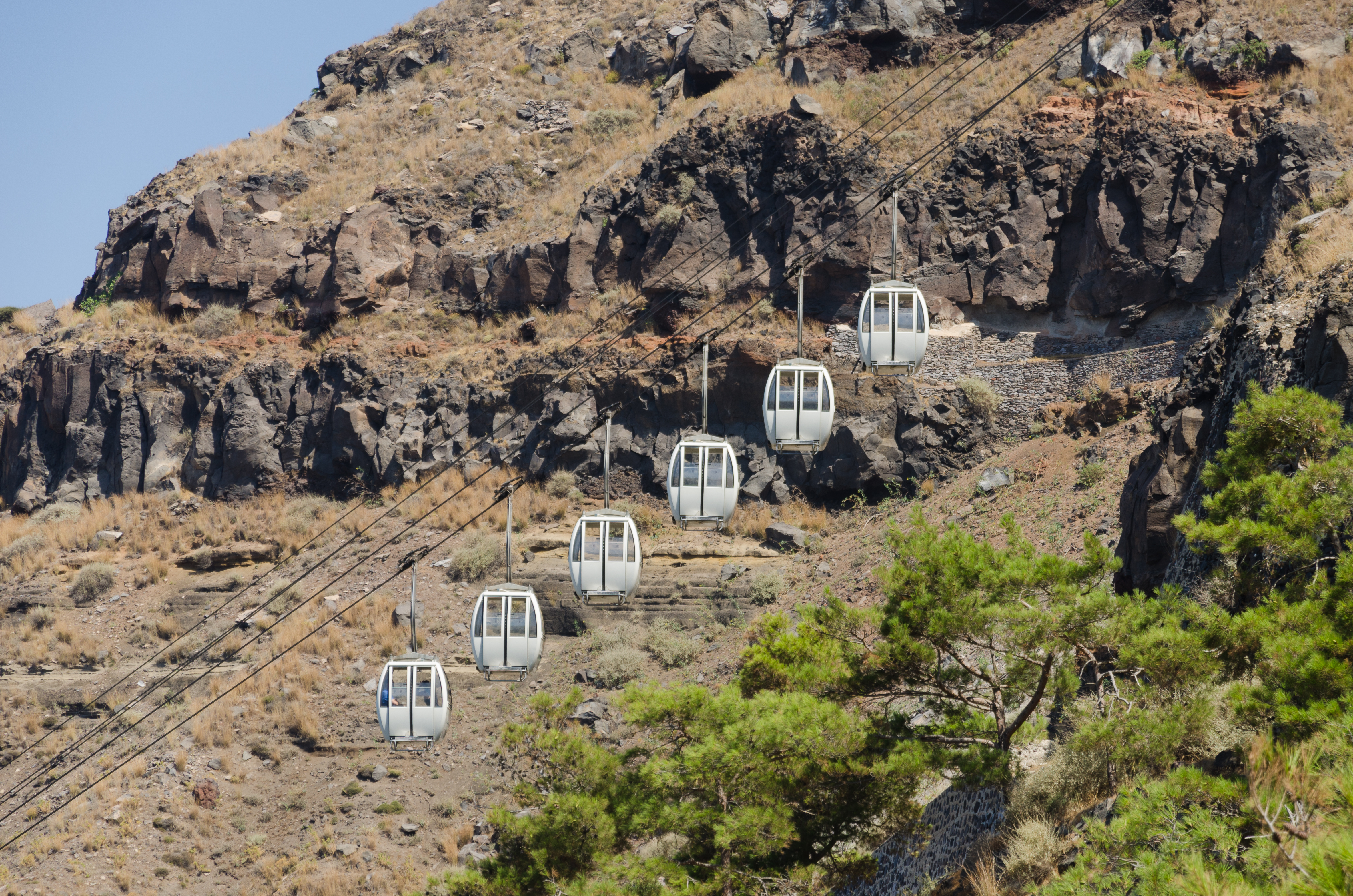 Cableway between Mesa Gialos harbour and Fira, Santorini, Greece.